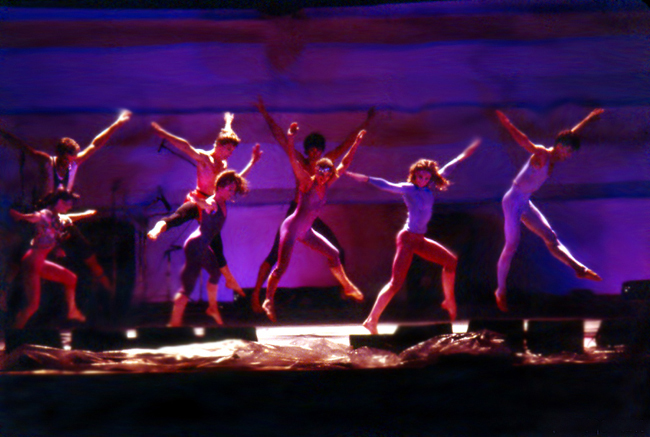 The Limbs Dance Company on redhat T Image (photograph) taken by Official Nambassa Photographer at the 1981 5 day Nambassa festival in Waihi, and was uploaded by User:Mombas 14:11, 4 May 2007 (UTC) , Nambassa dot com Terms of Use: 1/ All users of this image are required to attribute this work to "Nambassa Trust and Peter Terry" and the URL: " " is to accompany all use. 2/ Attribution. You must attribute the work in the manner specified by the author or licensor. 3/ For any reuse or distribution, you must make clear to others the license terms of this work. Statement by Nambassa Trust and Peter Terry